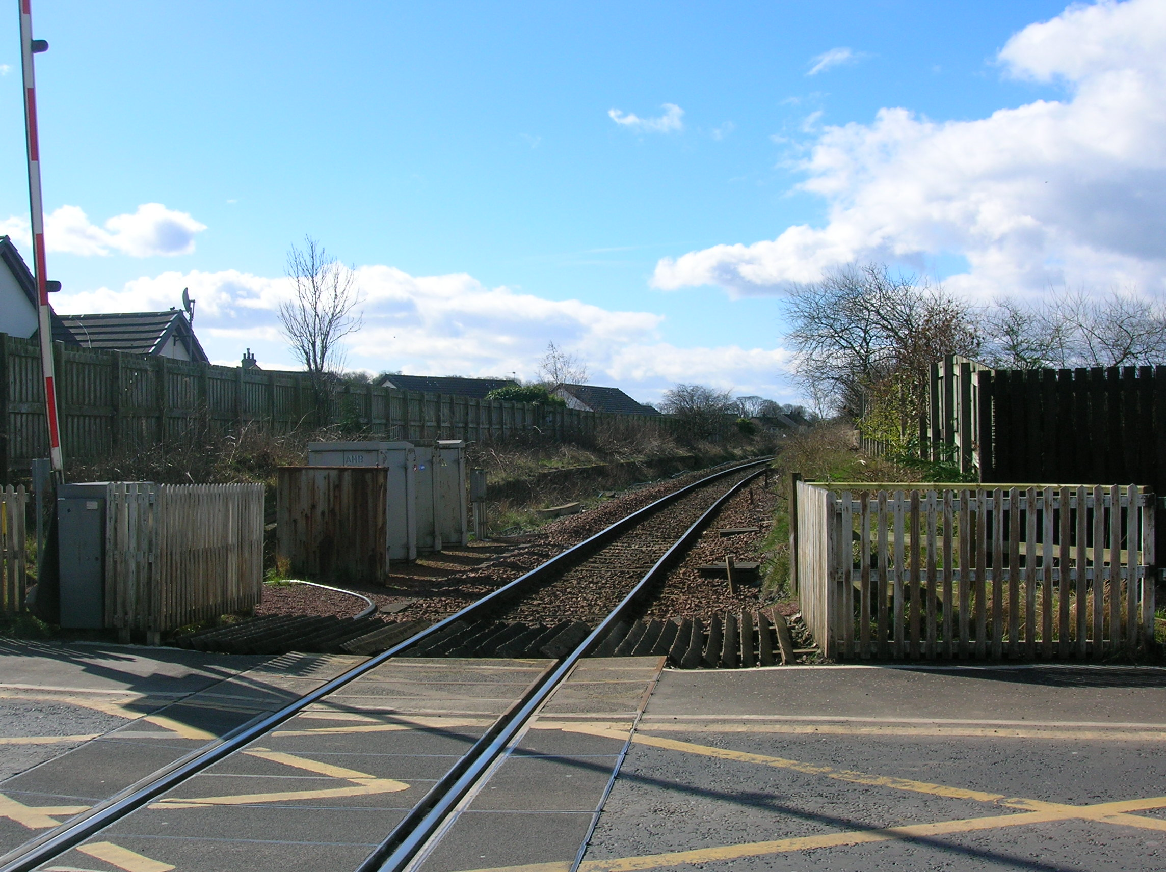 The disused platform of Gatehead station, near Laigh Milton viaduct, East Ayrshire, in March 2007. Looking towards Troon.